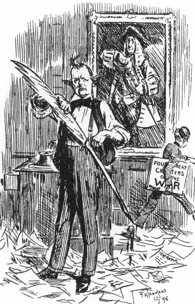 Churchill in 1916. One year after his first political downfall the caricaturist imagines the politician to immerse himself in his writings. Captions reads: "After all, some say 'the pen is mightier than the sword.'"